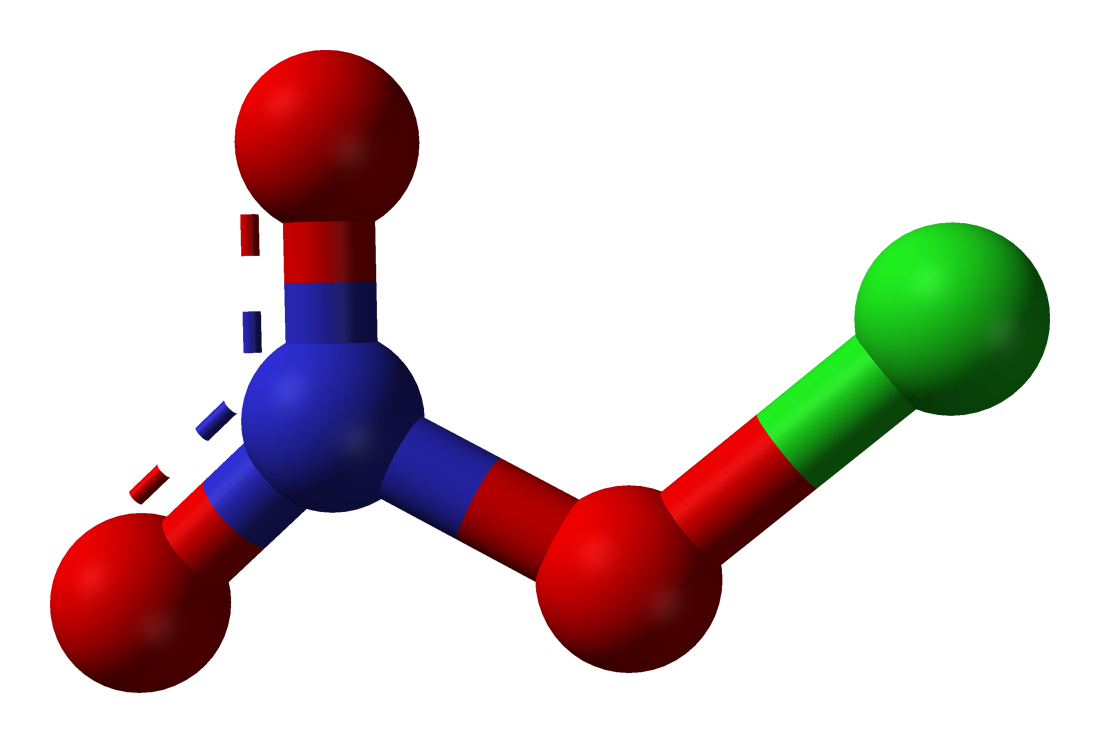 Ball-and-stick model of the chlorine nitrate molecule, ClONO2